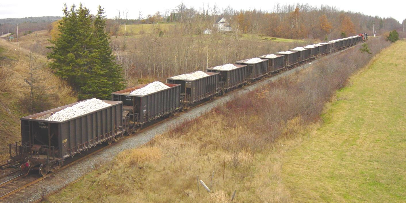 A Windsor & Hantsport Railway freight train with 19 eighty-ton carloads of gypsum slowly climbs the grade from Falmouth to Shaw's Bog, on 16 November 2006. This is the ruling grade westbound. Photograph by Ivan Smith.